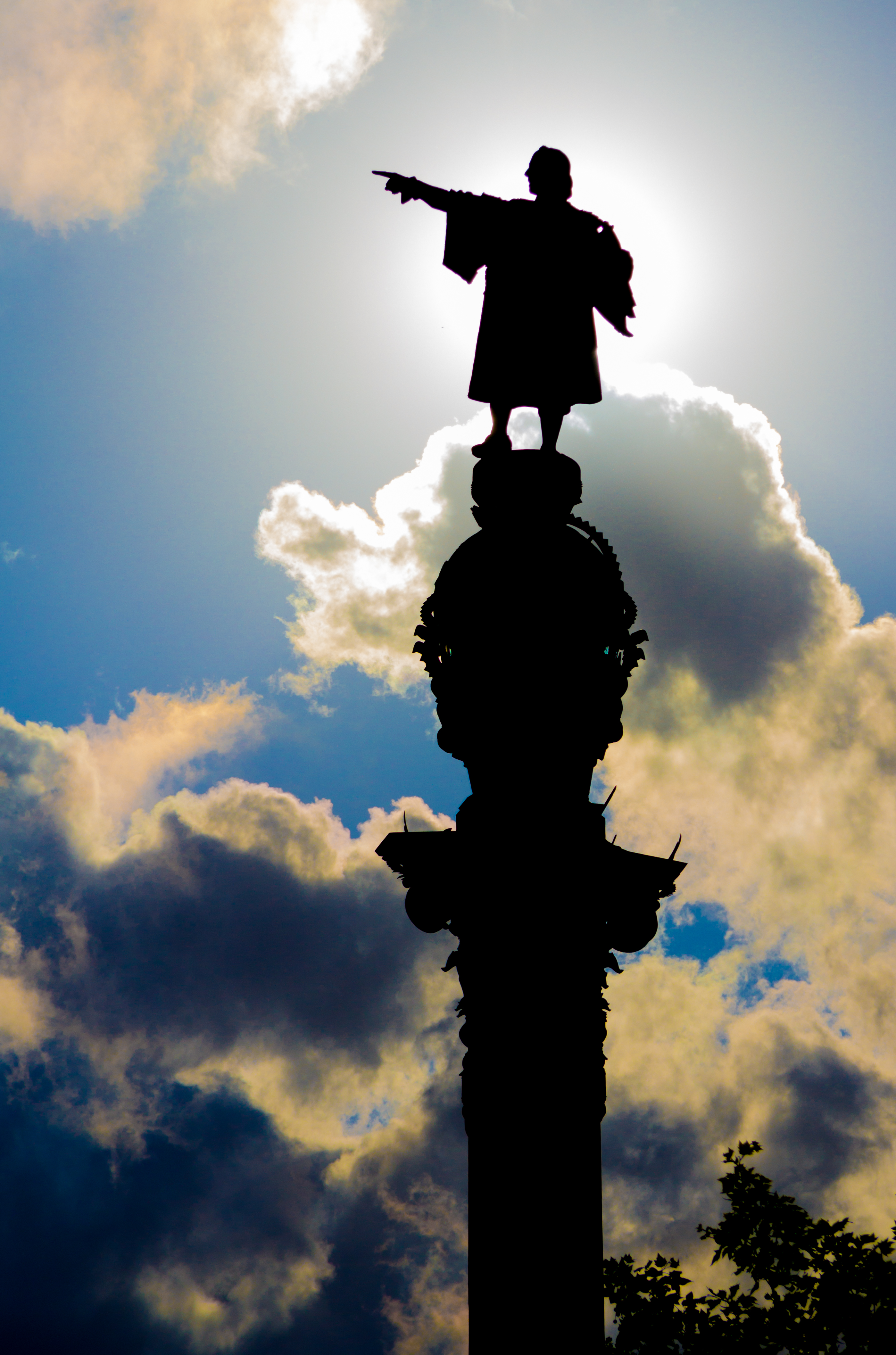 Barcelona Christopher Columbus Points West